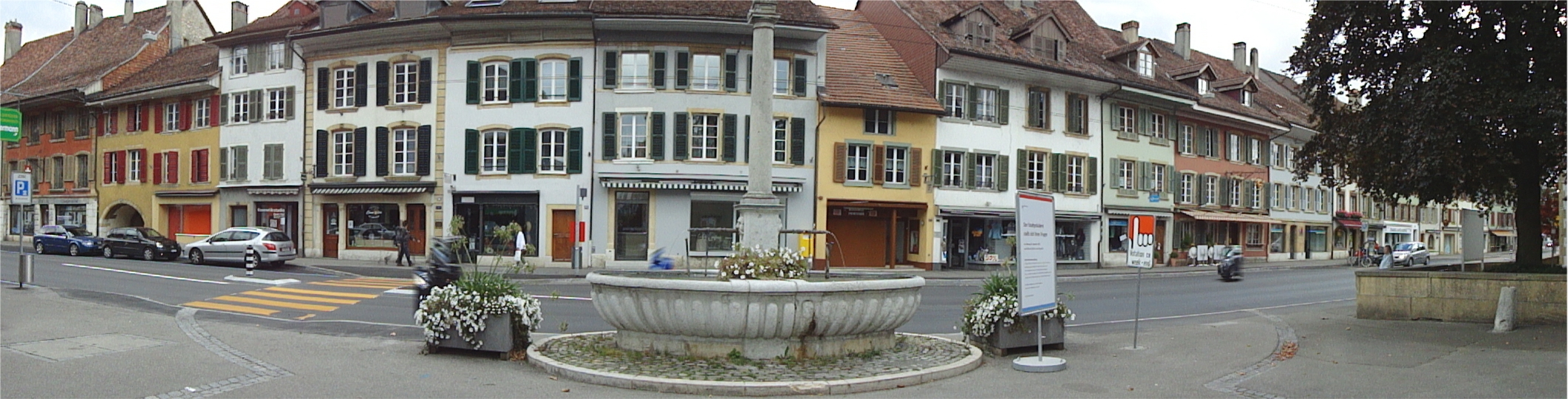 Panoramic view of the old town